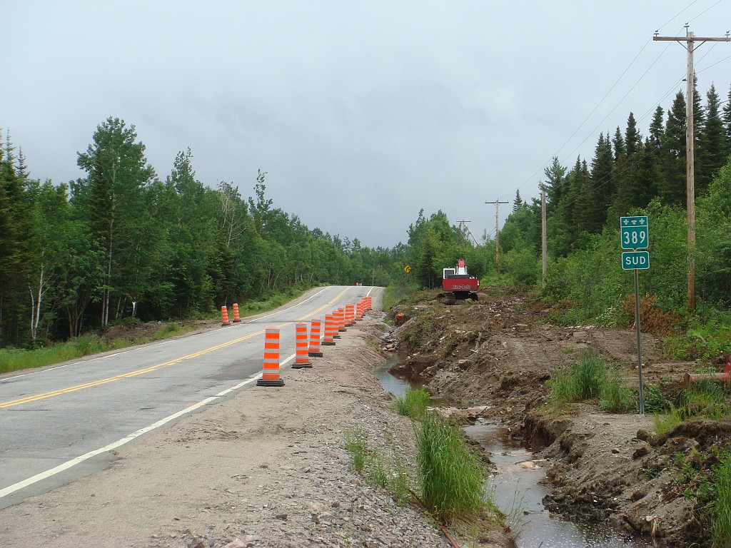 Photo de la route 389, près du barrage Manic-2, Québec, Canada.